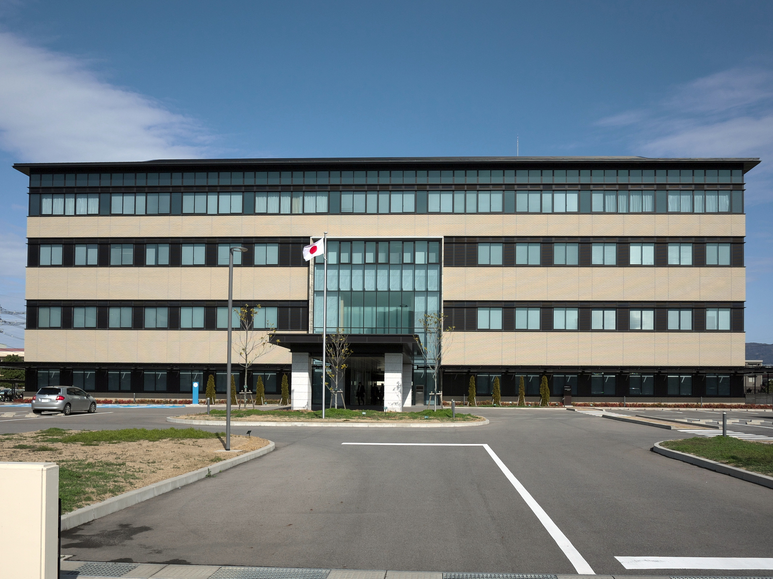 Courthouse in Matsue, Shimane prefecture Hiroshima High Court Matsue Branch Matsue District Court Matsue Family Court Matsue Summary Court Matsue Committee for the Inquest of Prosecution